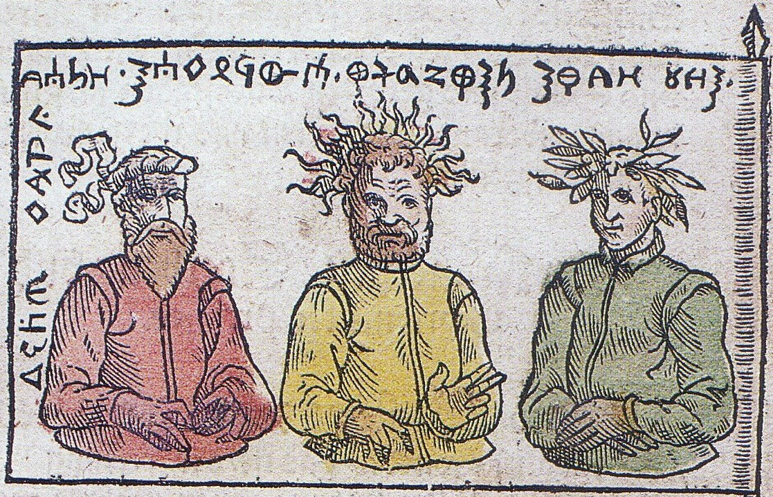 Prussian gods (Peckols, Perkunas, Potrimpo).